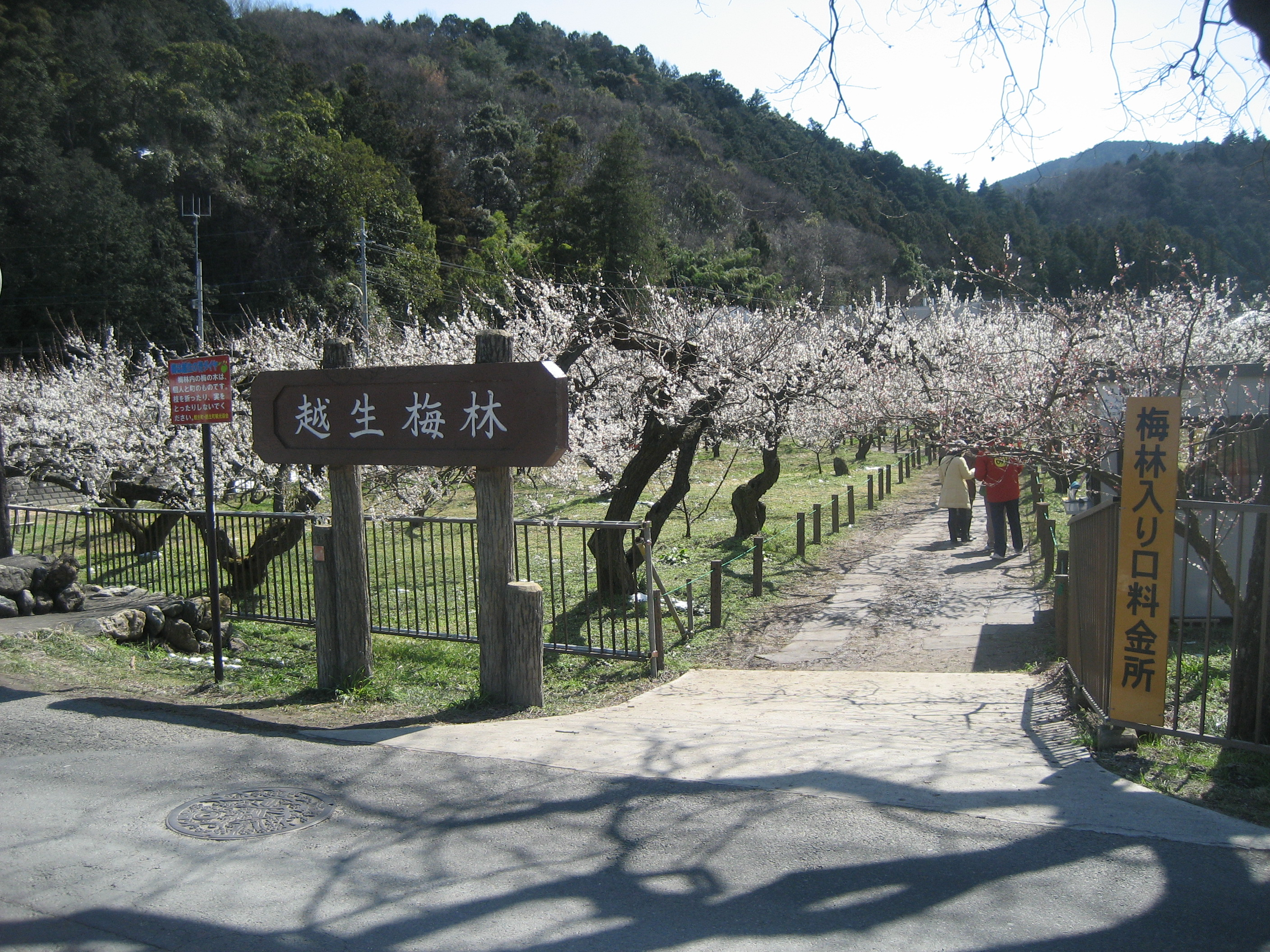 Entrance of the Ogose Plum Grove (Ogose Bairin)